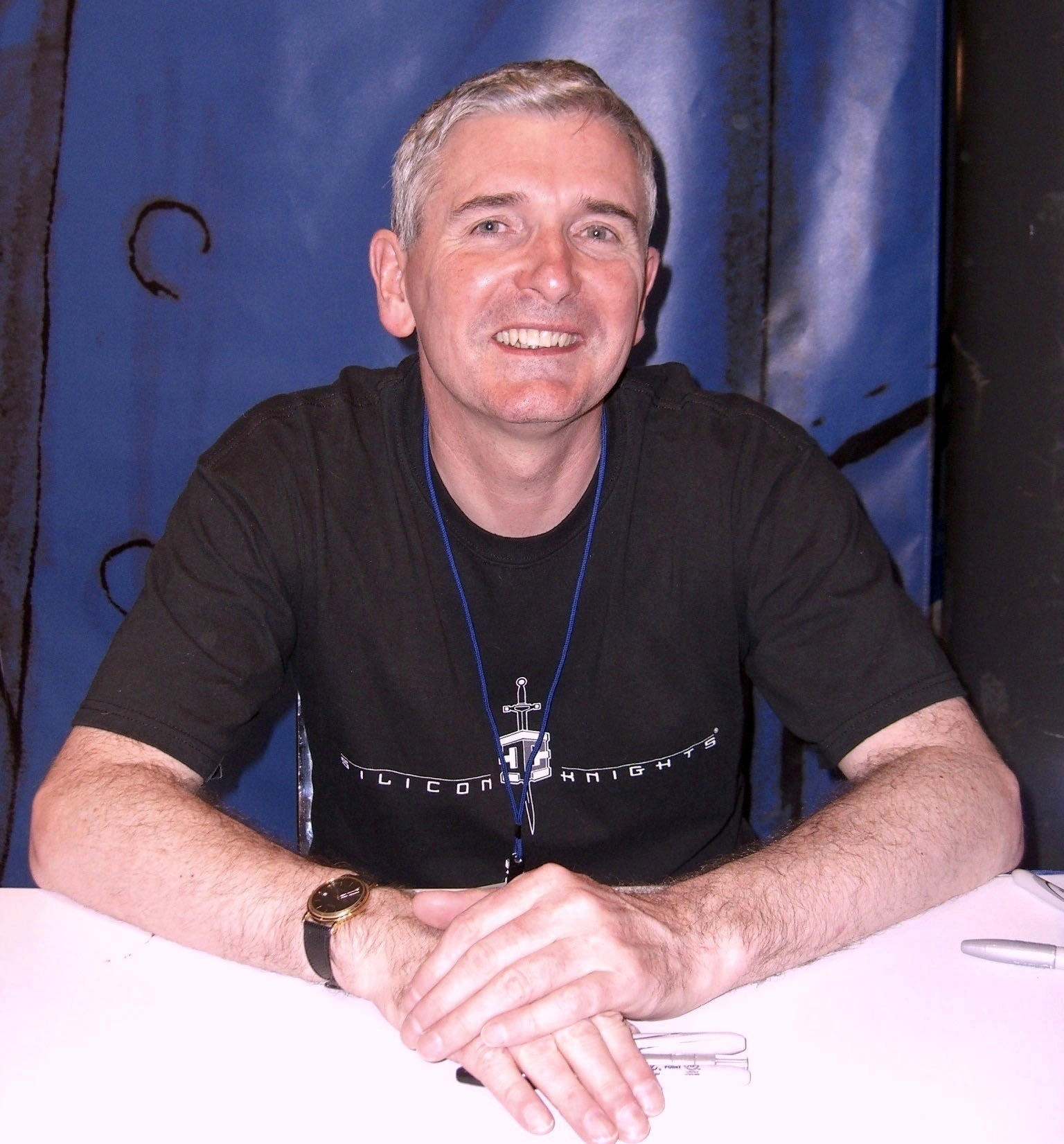 Comic book creator Mike Carey, at the New York Comic Convention in Manhattan, October 10, 2010. Photo by Luigi Novi. This photo may be used, modified and published for any purpose, only if a easily visible credit to the photographer is placed near the photo in each instance in which it is used. (See licensing information below.) Publication of this photo without this proper attribution constitute copyright infringement. For more information on my photos, you can contact me here.